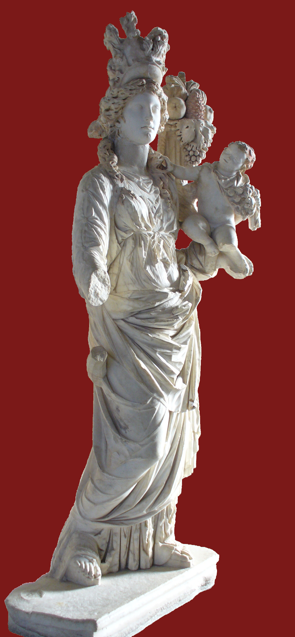 Istanbul Archaeological Museum - The goddess Tyche holding in her arms Plutus (god of wealth) as a child. Hellenistic art, Roman period, 2nd century AD. From Prusias ad Hypium (in the present-day il of Düzce). The coloring of the hair is remarkably well preserved.